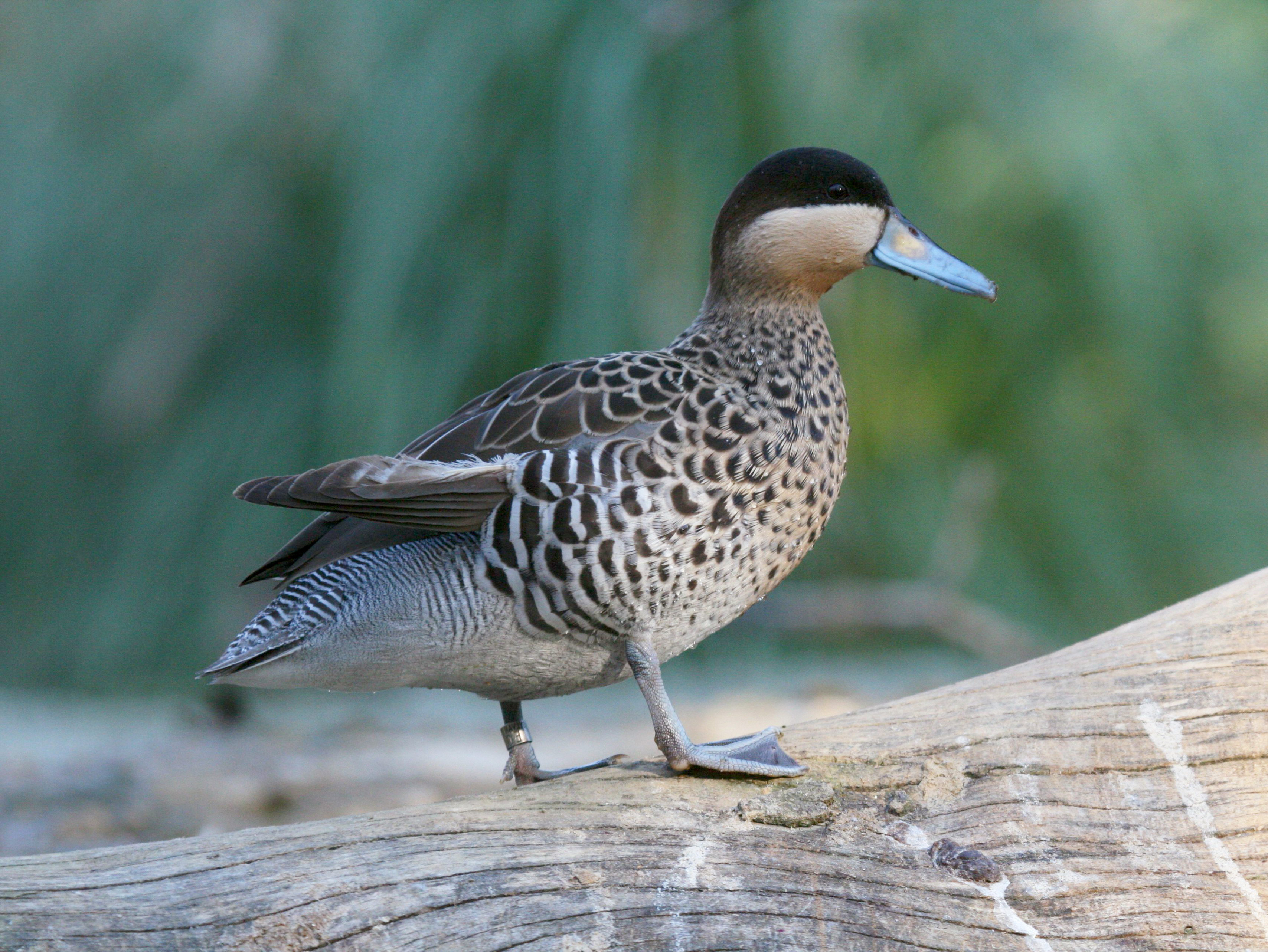 ♂ Silver Teal (Anas versicolor) at Sylvan Heights Waterfowl Park in Scotland Neck, North Carolina.